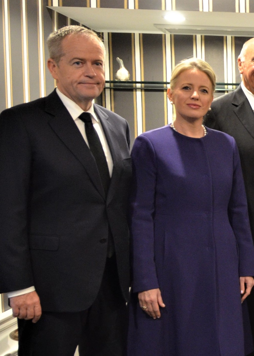 The official Australian delegation to the National Remembrance Ceremony in Christchurch